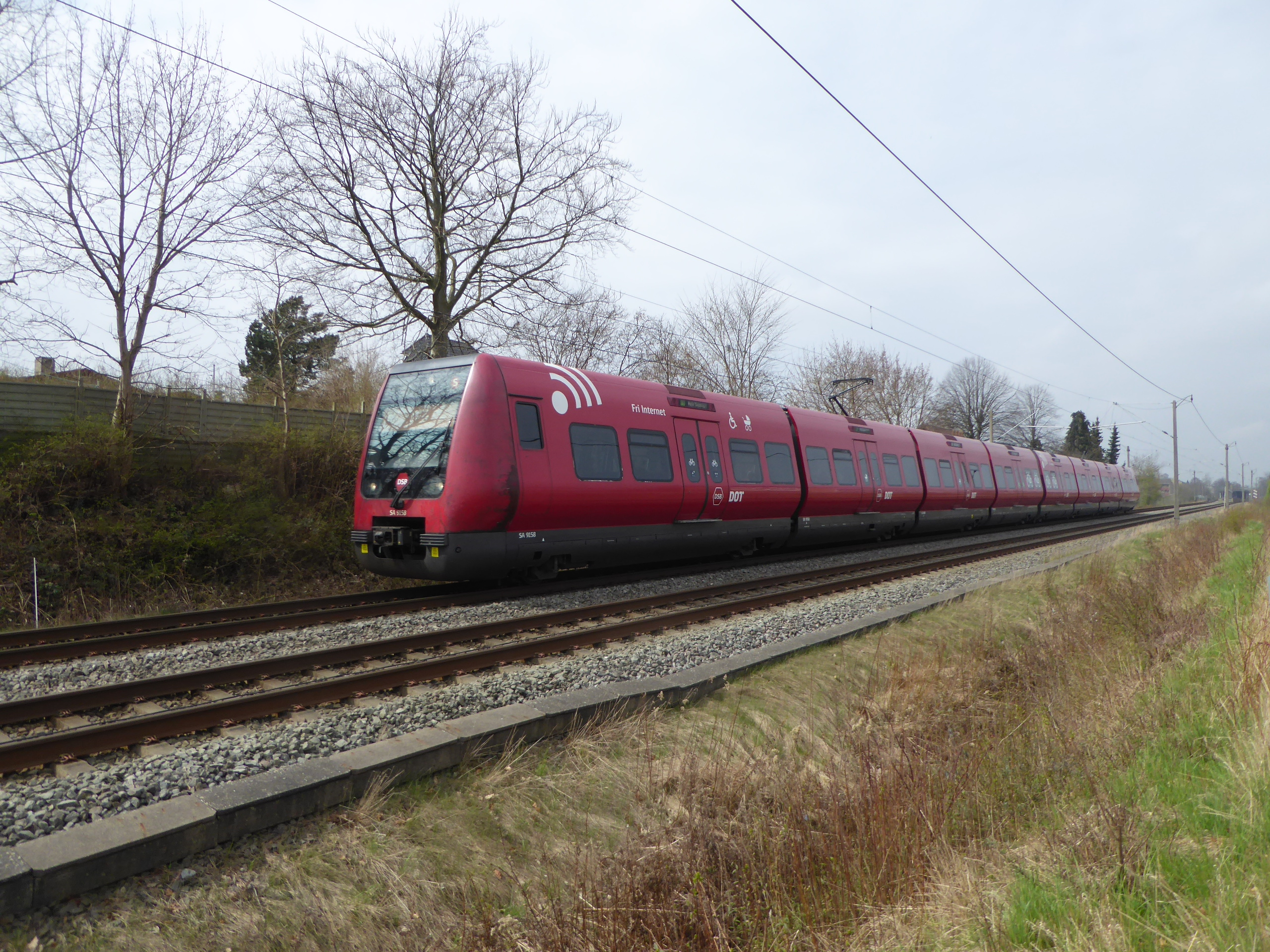 S-train line B between Kildebakke and Vangede on Hareskovbanen in Copenhagen.